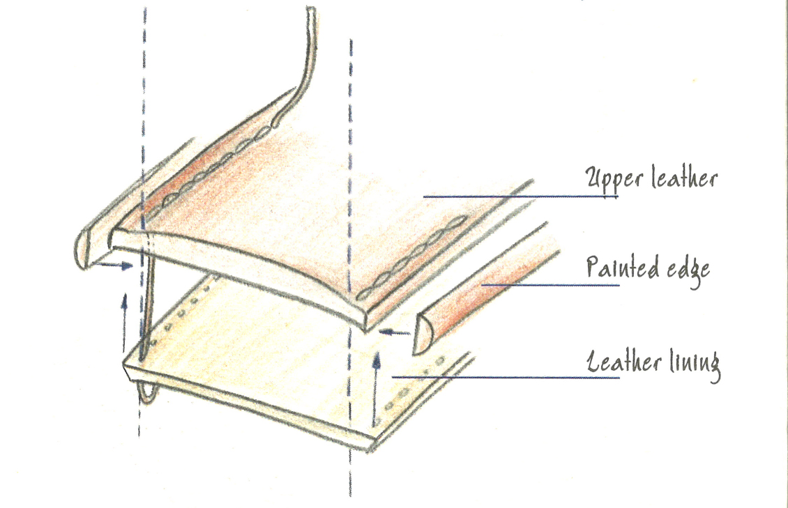 Coupé Franc (cut edge)